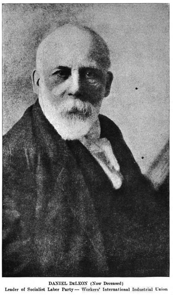 photo of Daniel De Leon published in Revolutionary Radicalism